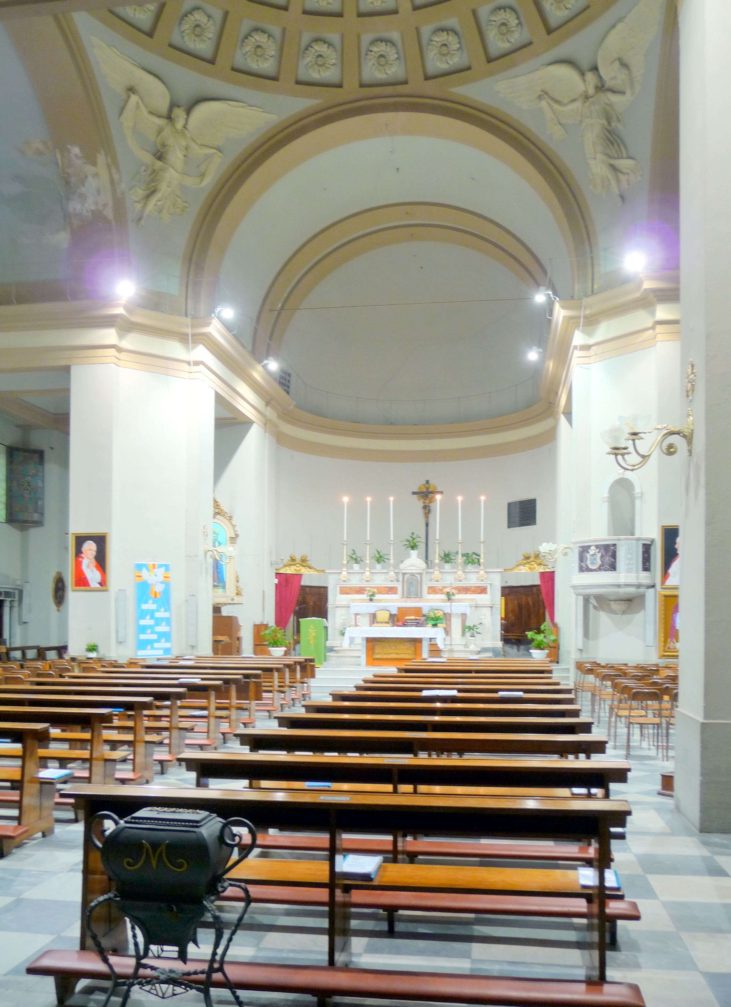 Church Chiesa di San Benedetto, Livorno